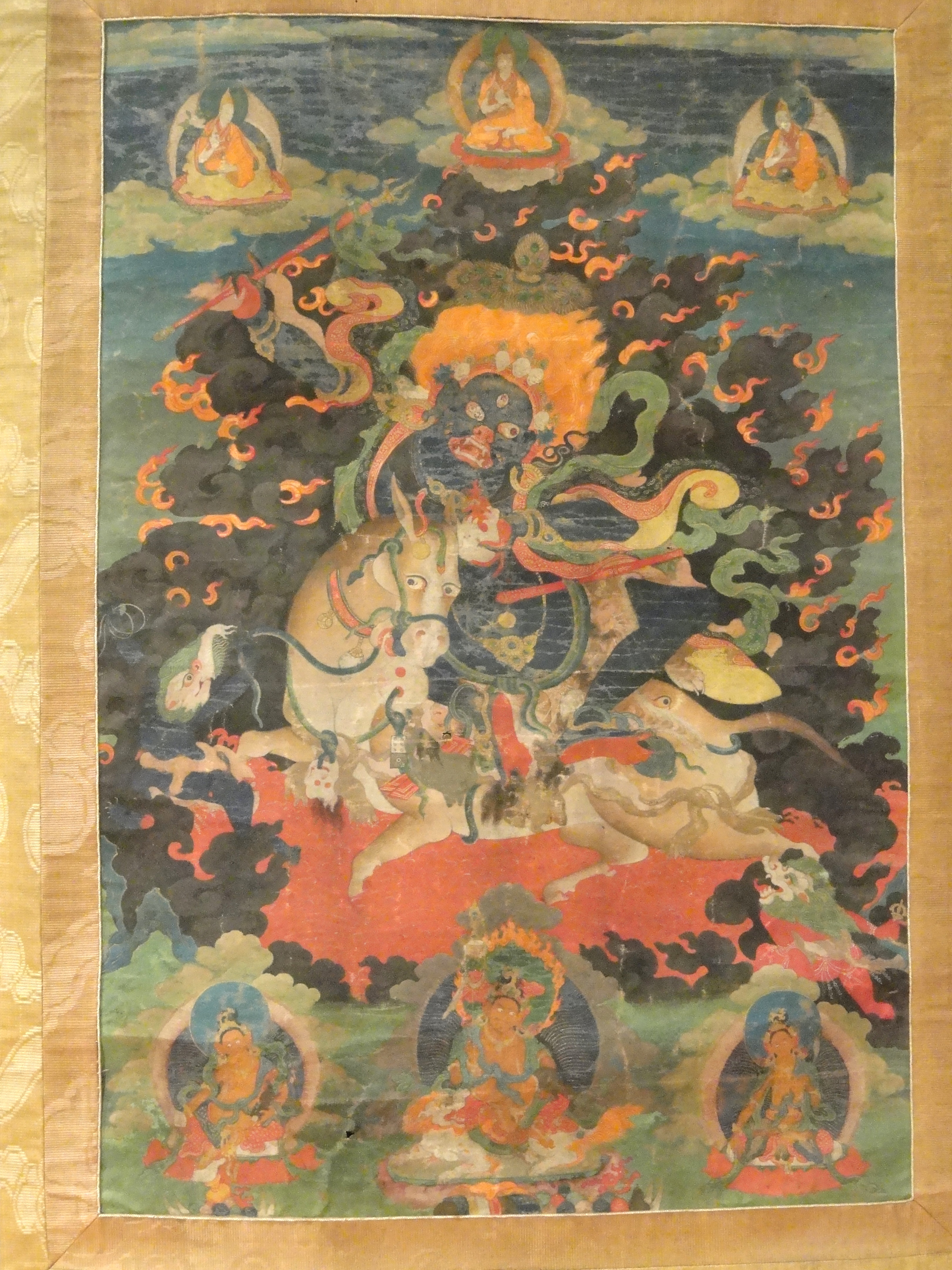 Exhibit in the Royal Ontario Museum, Toronto, Ontario, Canada. This exhibit is old enough so that it is in the public domain, and photography was permitted in the museum. I took this photograph and release it into the public domain.